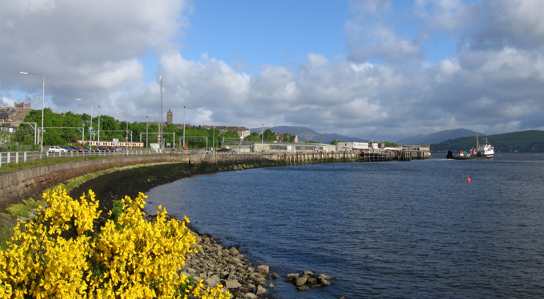 Gourock pierhead: Caledonian MacBrayne ferry, MV Saturn leaves at the same time as a passenger train sets off for Glasgow.